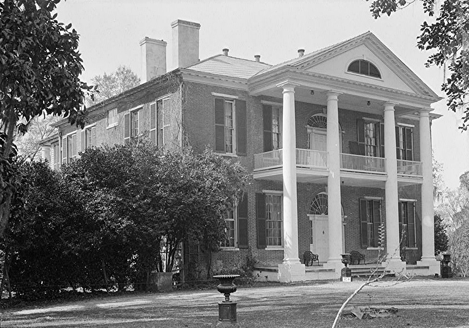 Arlington, Main Street, Natchez (Adams County, Mississippi) (cropped). Image courtesy of Historic American Buildings Survey—HABS.